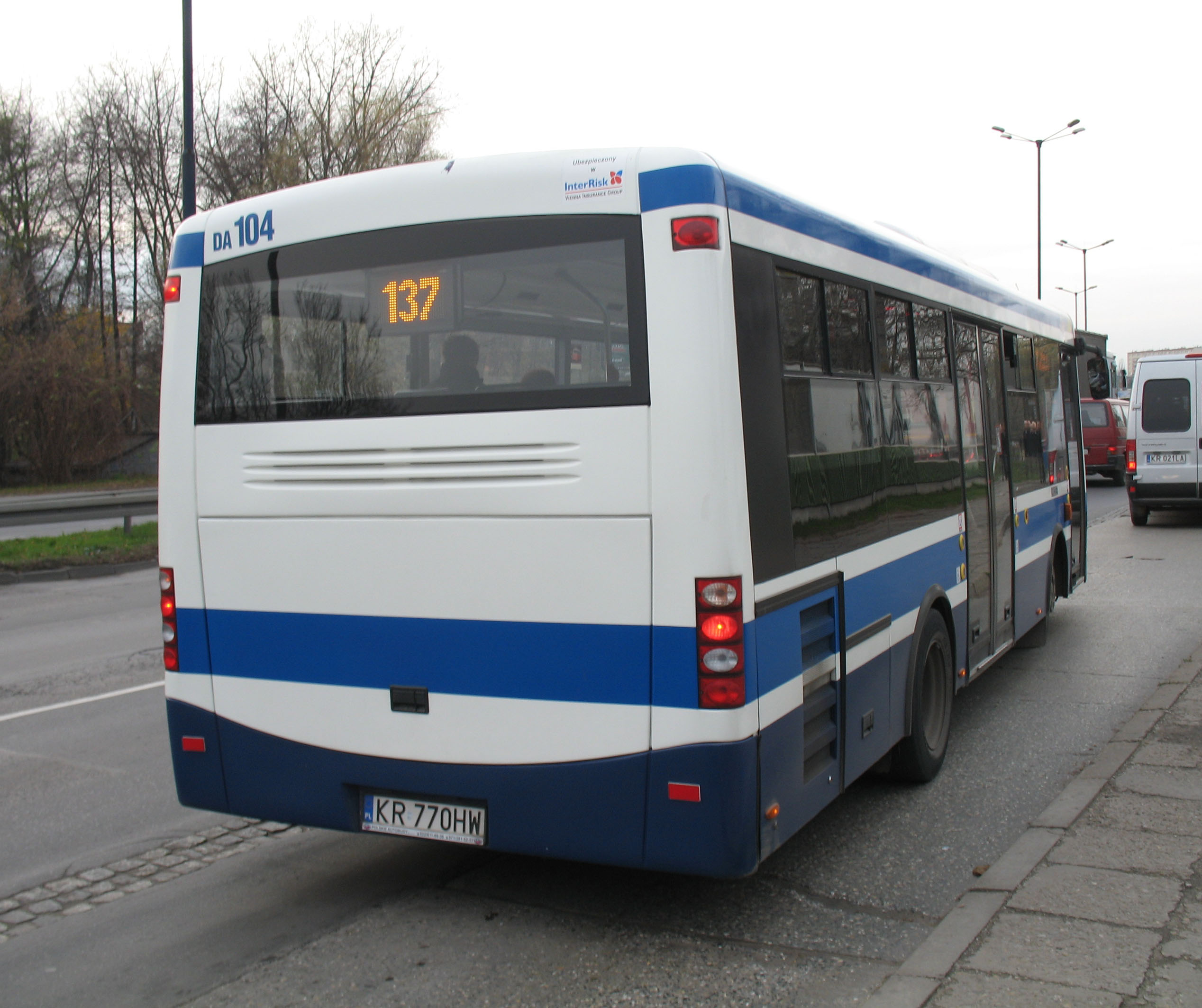 Jelcz M083C Libero bus (#DA104) on Autosan chassis in Kraków, Poland. Built 2008, MPK Kraków operator.